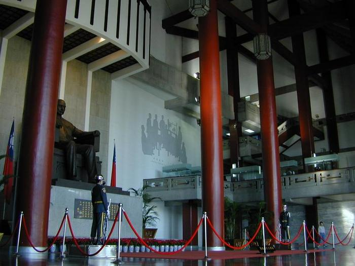 The Main Hall of the Sun Yat-sen Memorial Hall, Taipei City, Taiwan. Ceremonial guards before a large statue of Sun Yat-sen, the Father of the Republic of China.